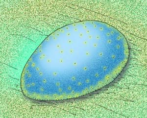 Reconstruction of the Precambrian bilateran Solza margarita, from where the Solza River is today.